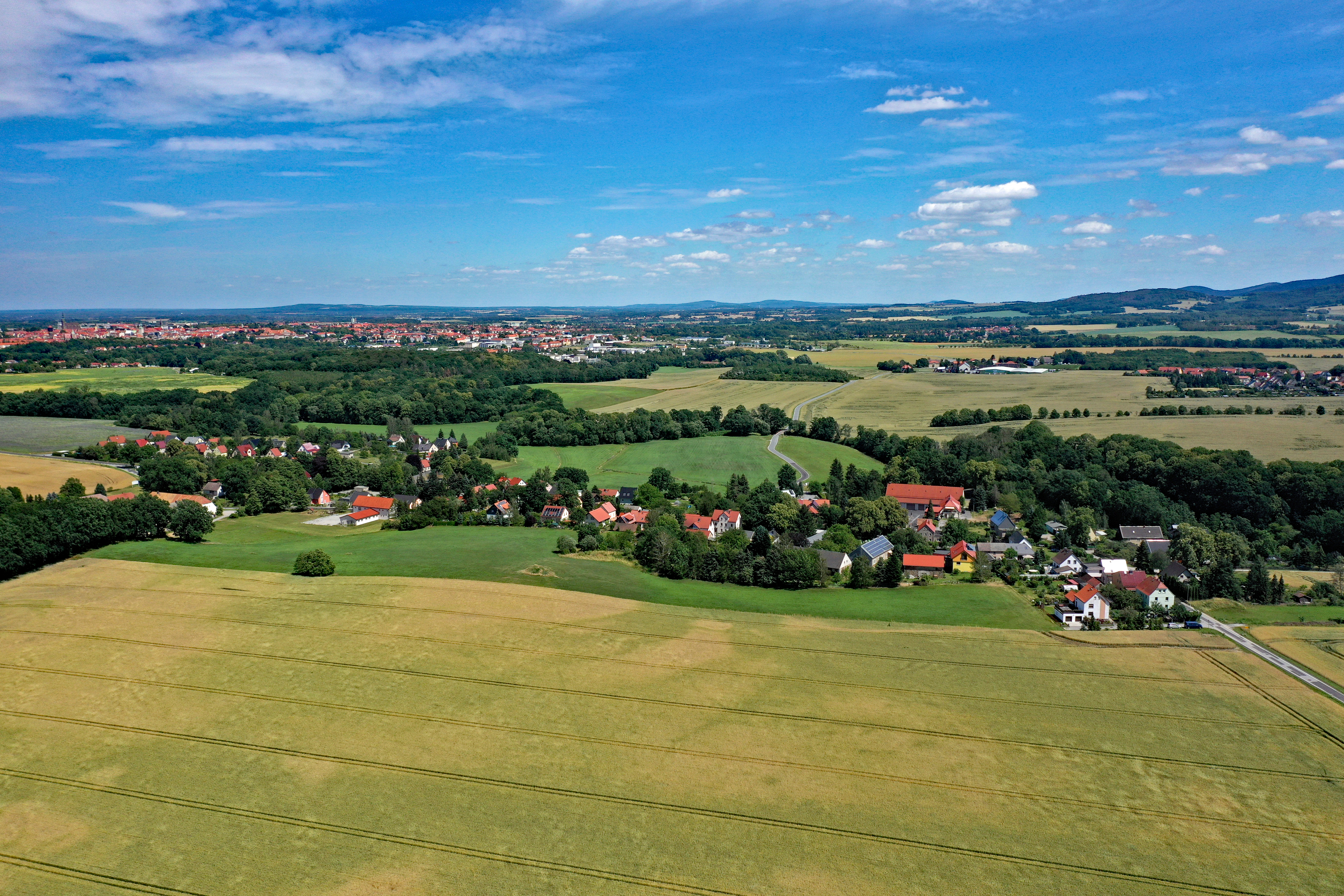 Grubschütz (Doberschau-Gaußig, Saxony, Germany) Hornjoserbsce: Powětrowy wobraz Hrubjelčic